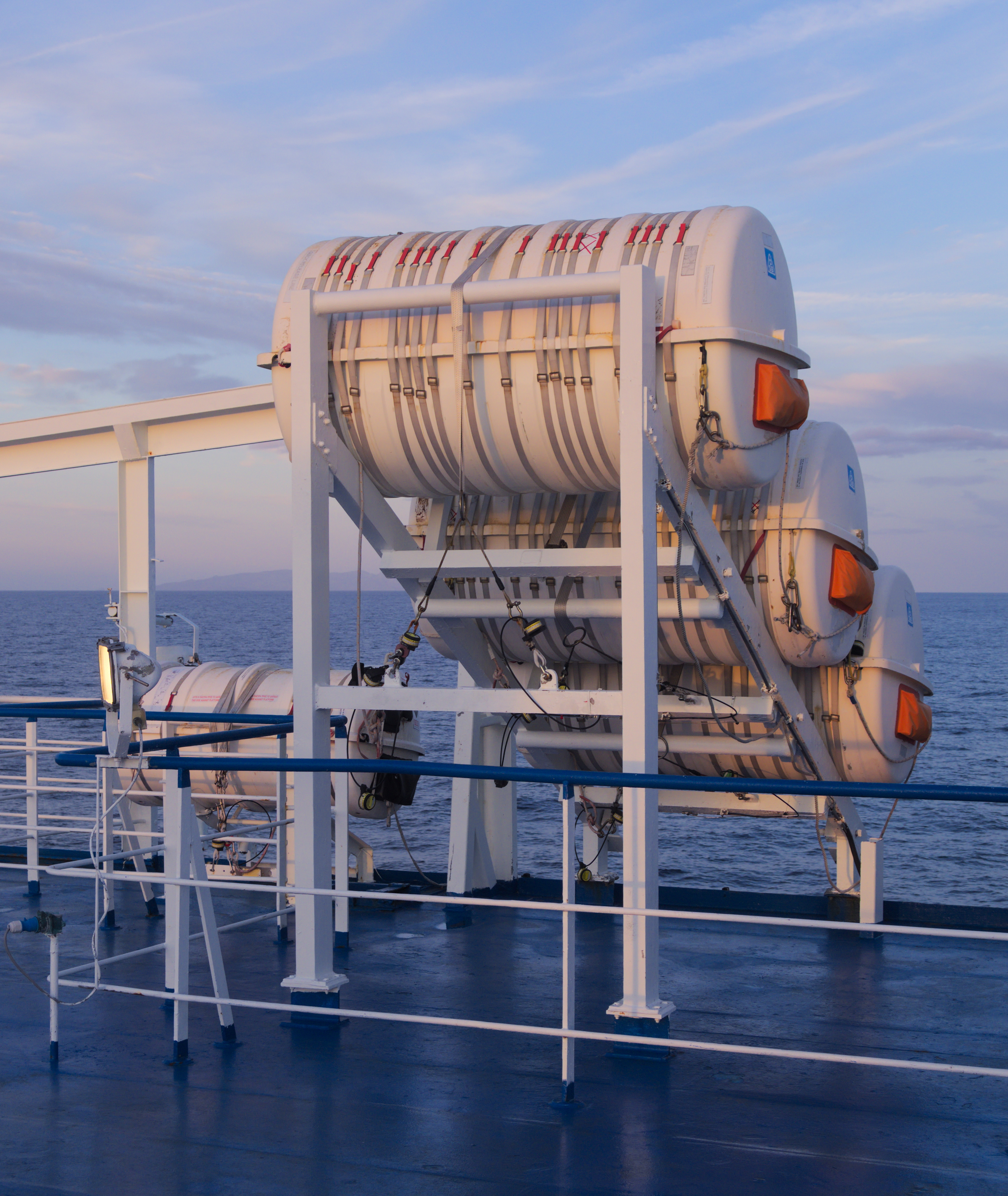 Life boats on board Festos Palace Ro/Ro.